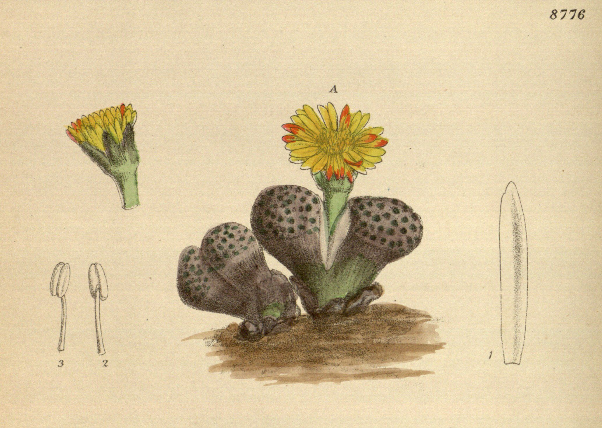 Mesembryanthemum fulviceps (= Lithops fulviceps), Aizoaceae